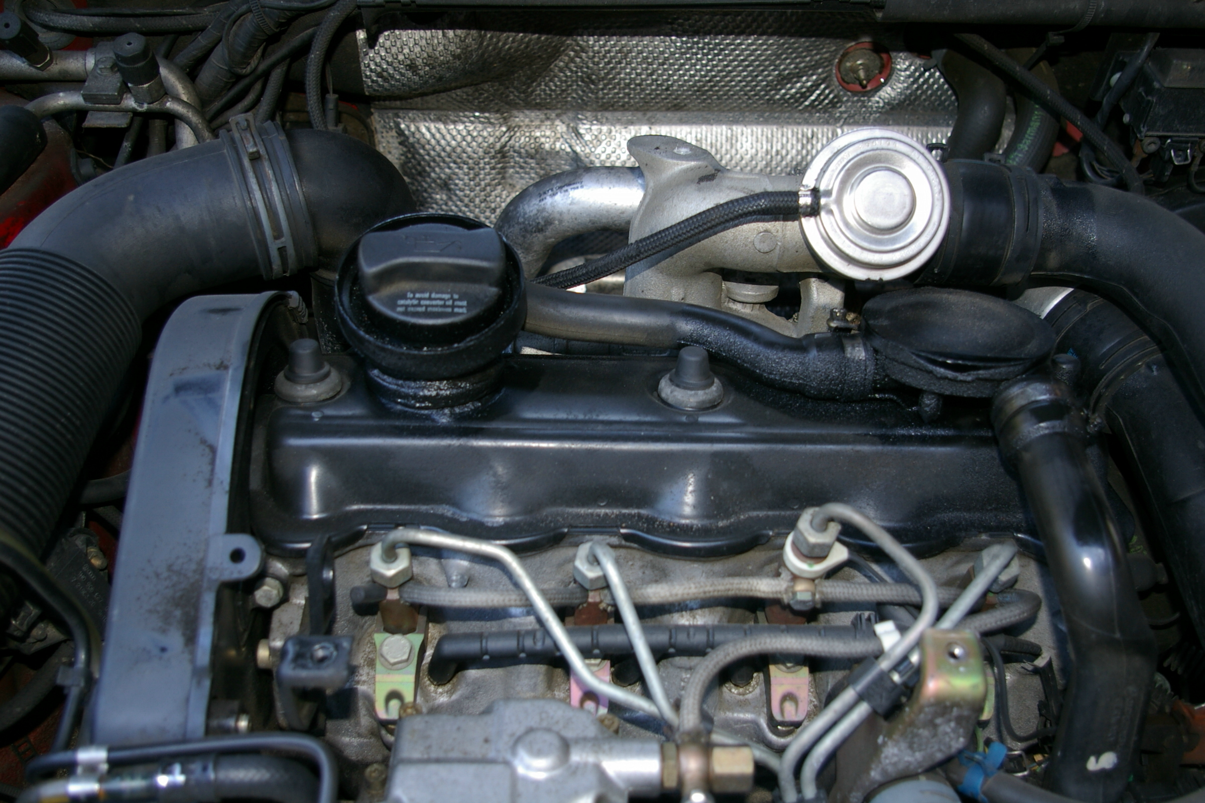 Volkswagen Group 1.9 litre 4-cylinder TDI engine, show in a Volkswagen Passat (B4). This variant, ID code AFN, is also fitted in Audis and SEATs.